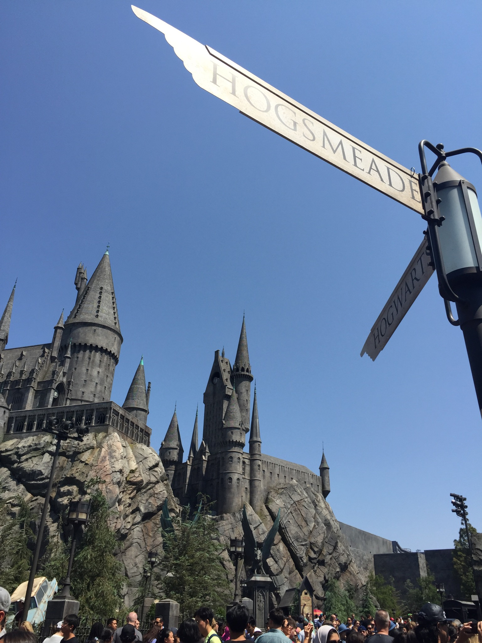 The mythical hogwarts castle from the view of hogsmeade